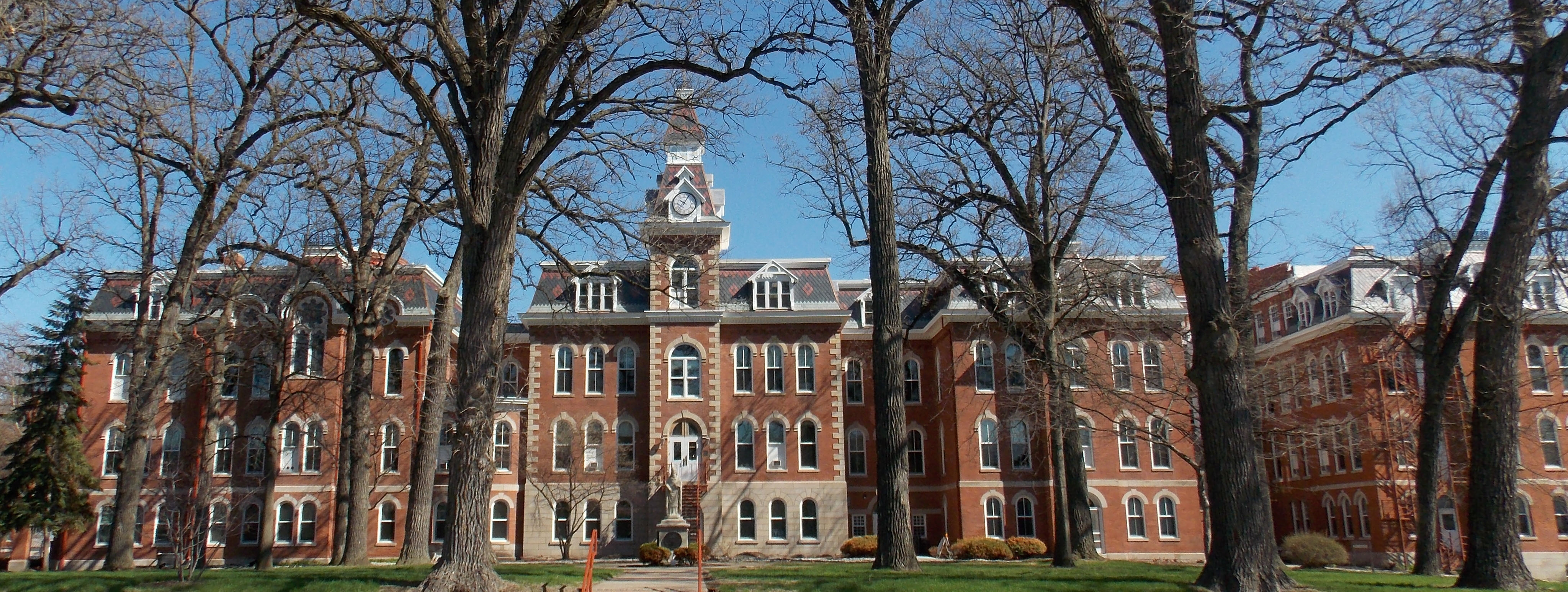 Ambrose Hall at St. Ambrose University in Davenport, Iowa